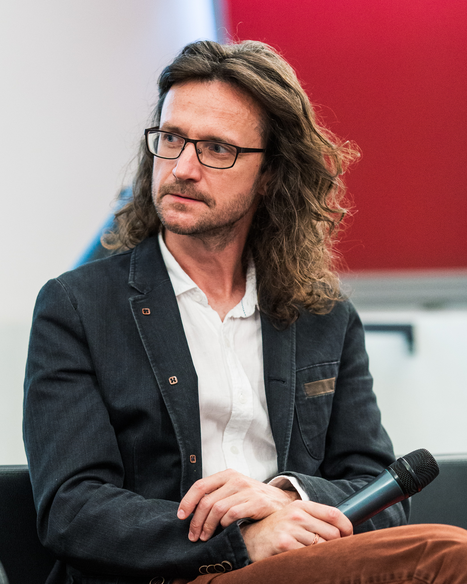 Maciej Płaza on Authors’ Reading Month 2019, Wrocław, Poland